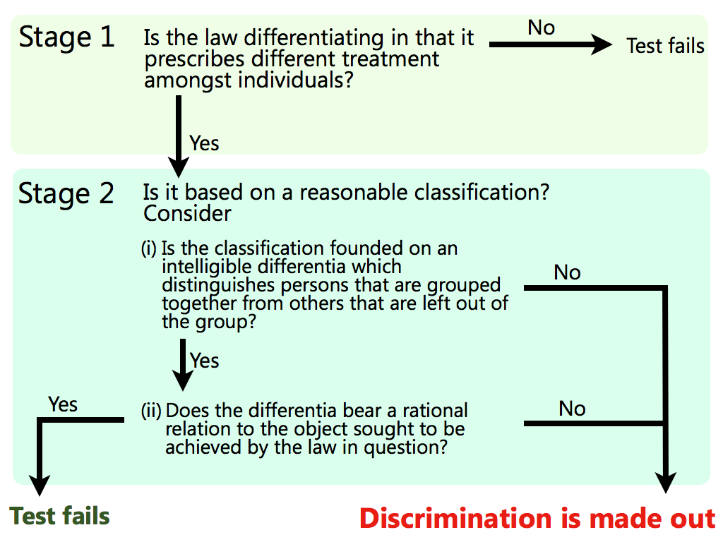 The rational nexus test applied to Article 12(1) of the Constitution of Singapore by the Court of Appeal case Public Prosecutor v. Taw Cheng Kong [1998] 2 S.L.R.(R.) [Singapore Law Reports (Reissue)] 489.